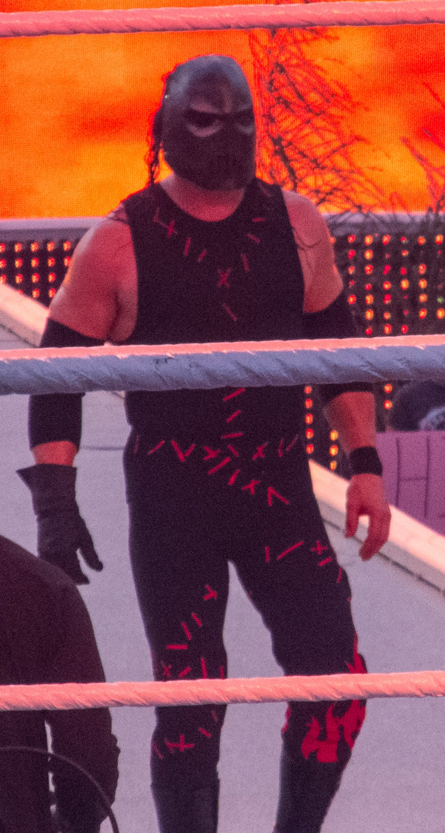 WWE Wrestlemania 28 - Randy Orton vs Kane